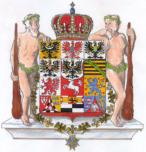 Small Court of Arms of Prussia/Kleines Wappen des Königreichs Preußen File:PreussKlWa1790.jpg